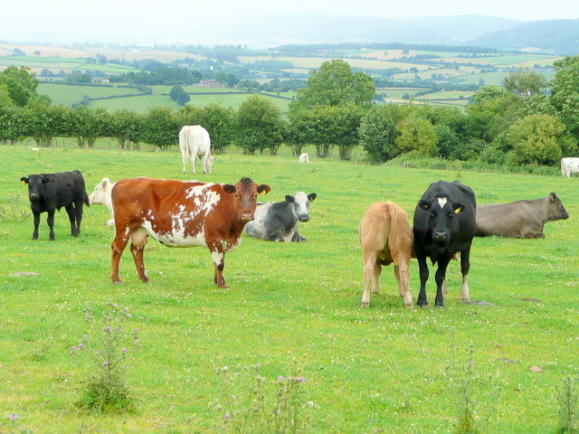 Beef cattle at St. Wulstan's Farm Viewed from the end of the public road south of Welsh Newton Common.